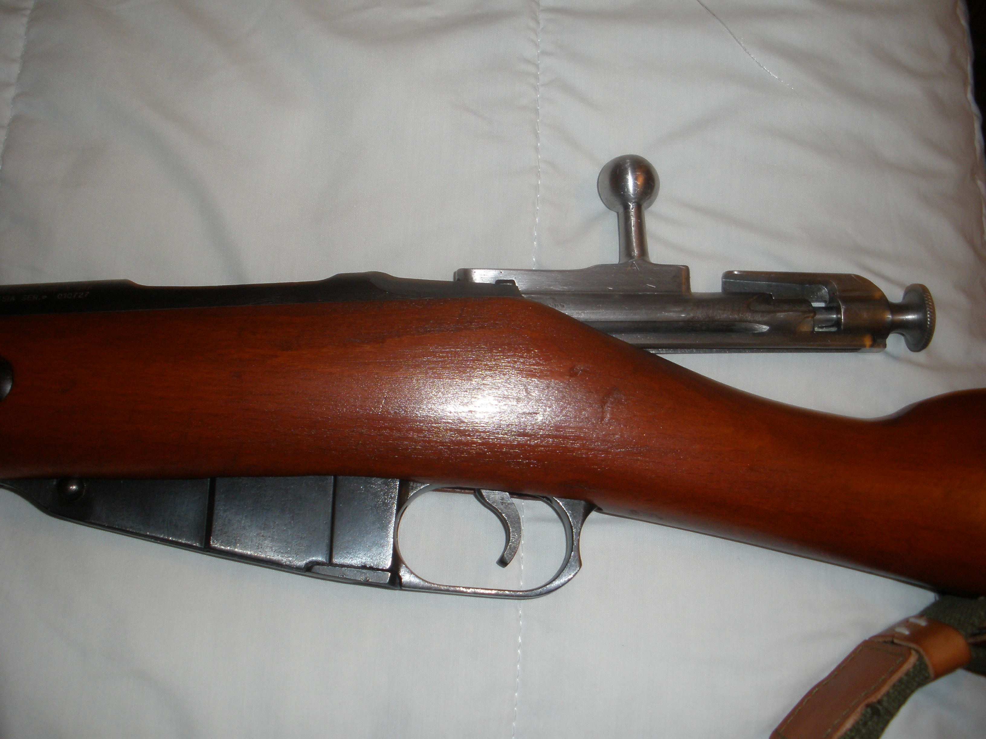 Bolt